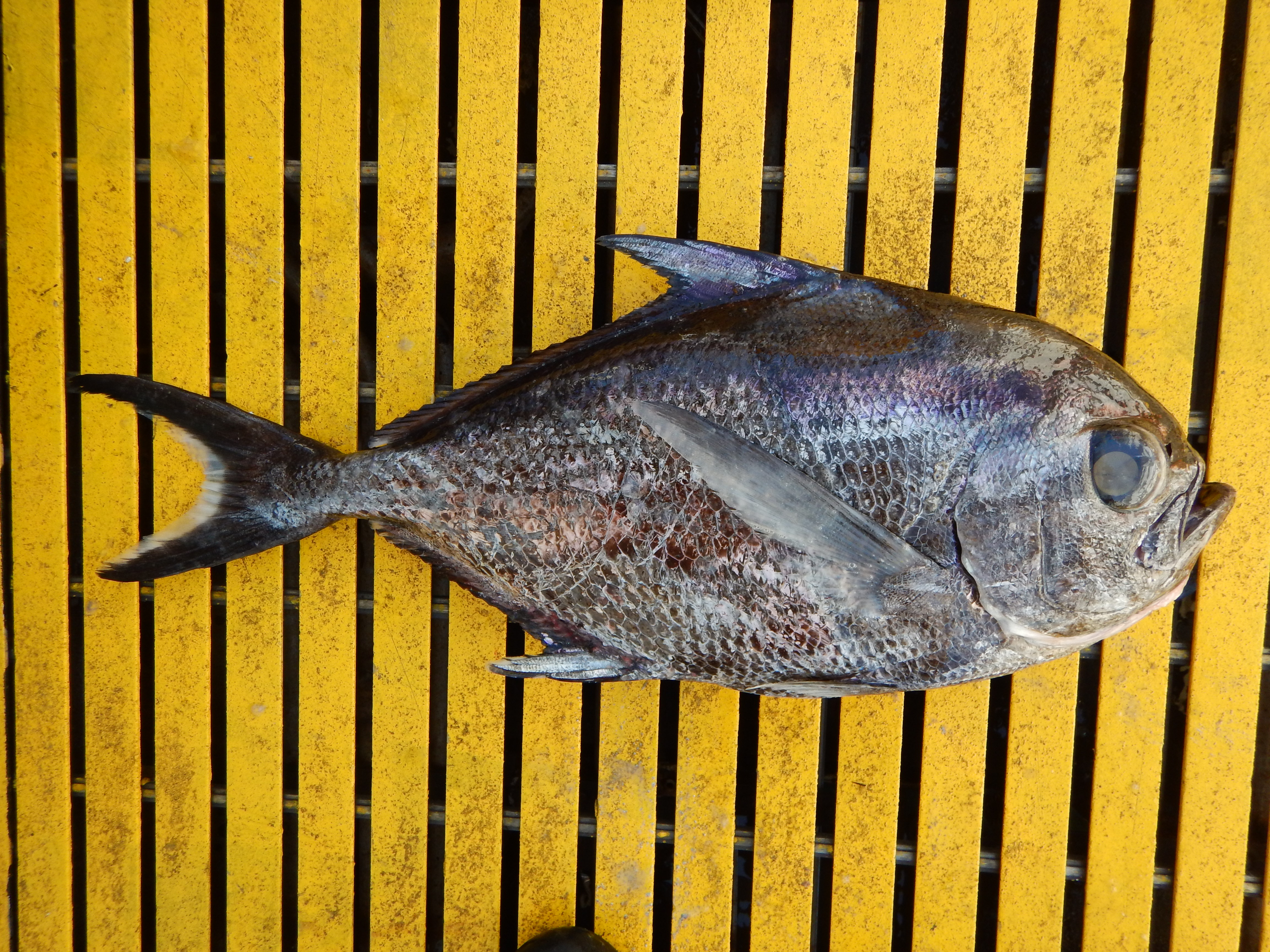 Sickle Pomfret (Monchong) Taractichthys steindachneri Image ID: fis01170, NOAA's Fisheries Collection Location: Commonwealth of Northern Mariana Islands Photographer: Allen Shimada, NOAA/NMFS/OST